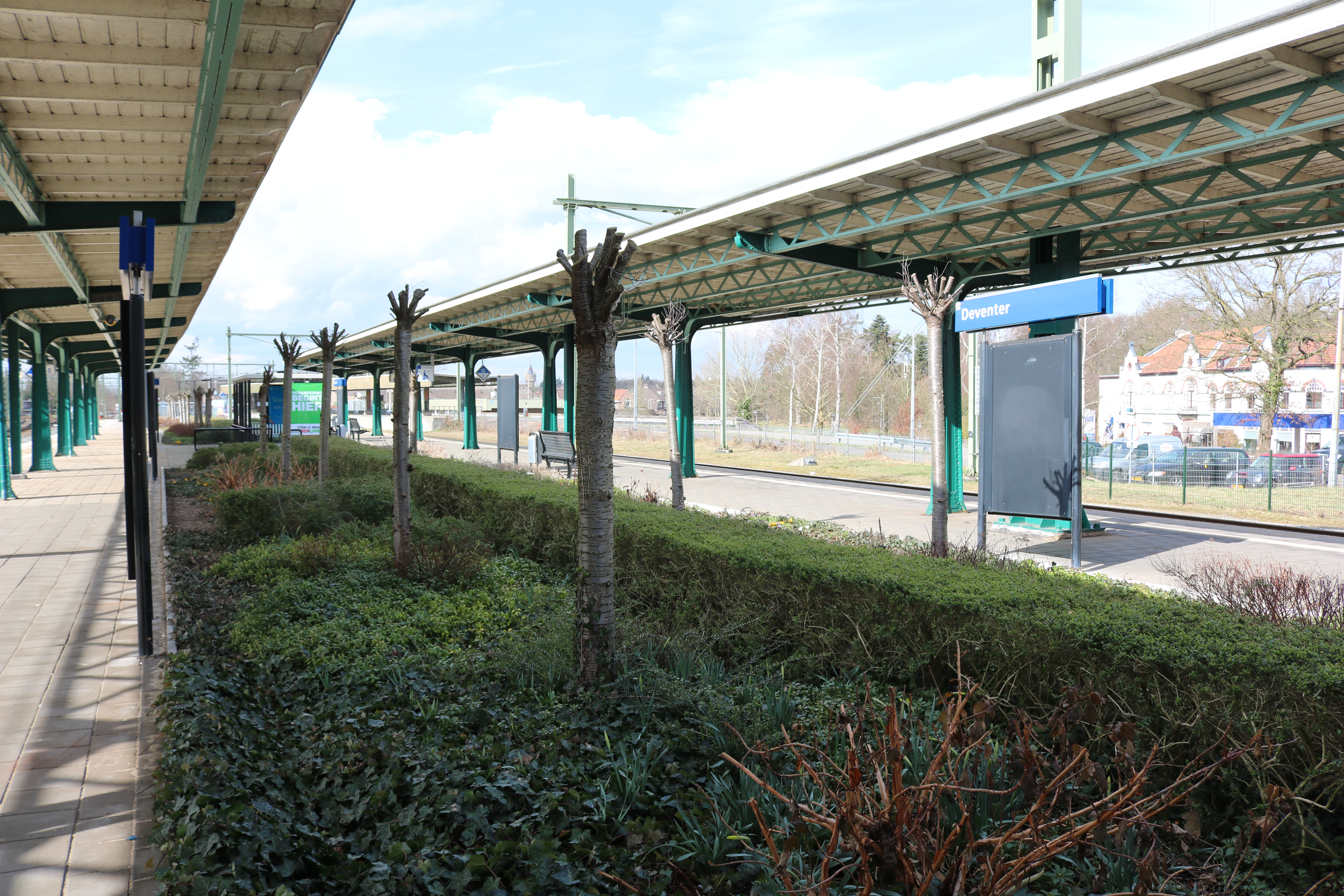 railroad station Deventer